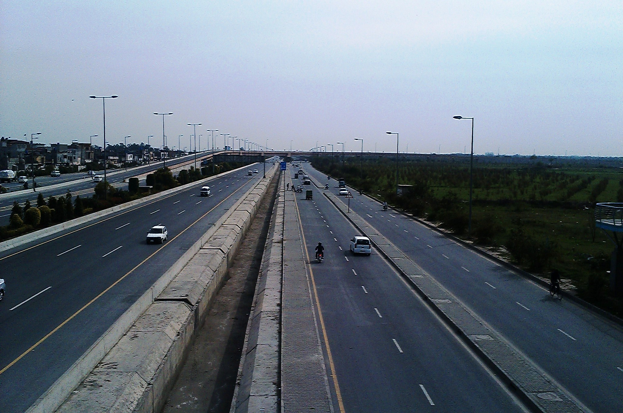 Ring Road view near Allama Iqbal International Airport.